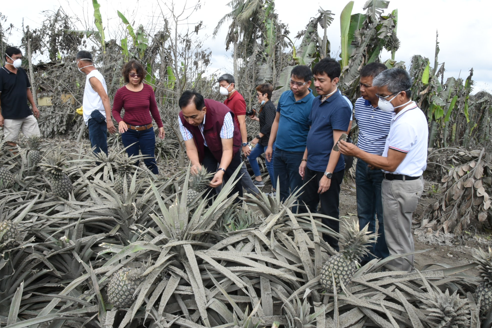 Secretary William Dar led the officials and staff of the Department of Agriculture Regional Field Office (DA-RFO) 4A (CALABARZON) in their relief and recovery efforts in Batangas and Cavite, where thousands of farmers, fishers, ruralfolk and residents were adversely affected with the eruption of Taal volcano. Secretary Dar and Director de Mesa then went to Silang, Cavite, and inspected ashfall-damaged pineapple and coffee farms, and assured farmers and local government officials of strong and continued support to enable them to recover.